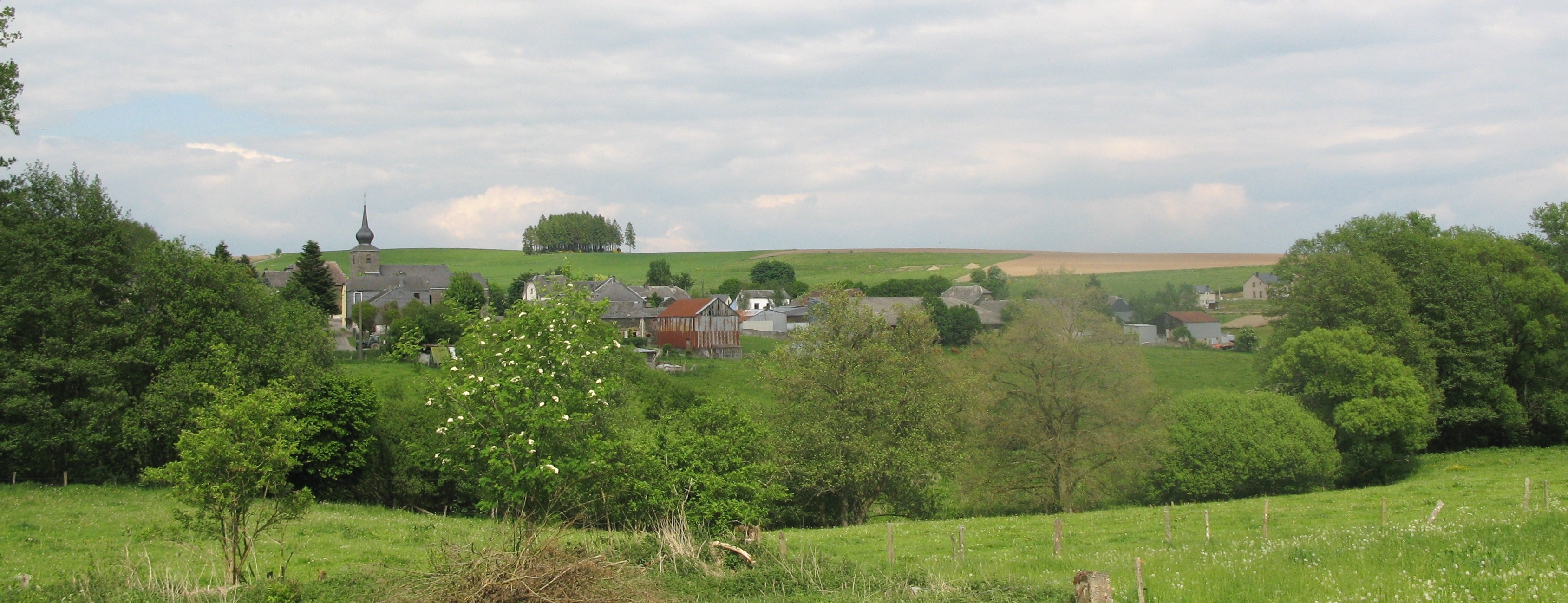 Longvilly seen from the south